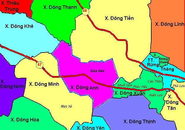 Dong Anh folk music and dance area, Thanh Hoa Province, Vietnam